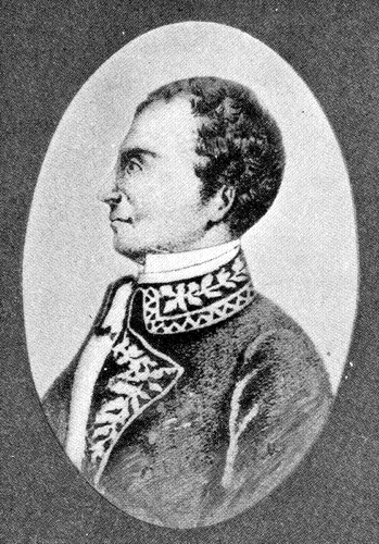 André Rigaud (1761-1811) was a Haitiian military leader in the Haitian revolution (from [1]).